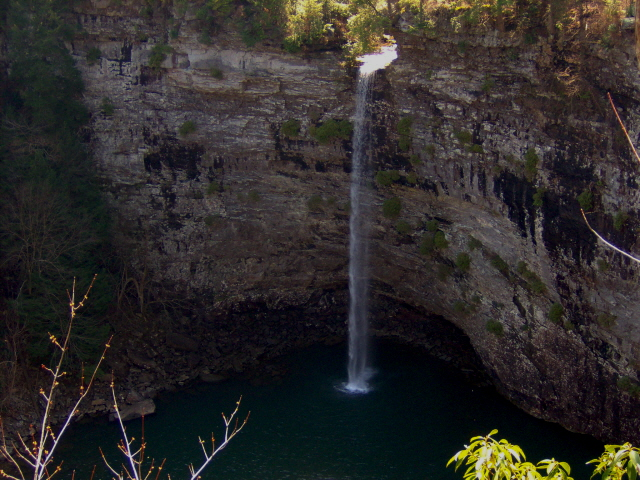 Rockhouse Falls at Fall Creek Falls State Park in Tennessee, located in the Southeastern United States. This view is from an overlook along the Gorge Trail.